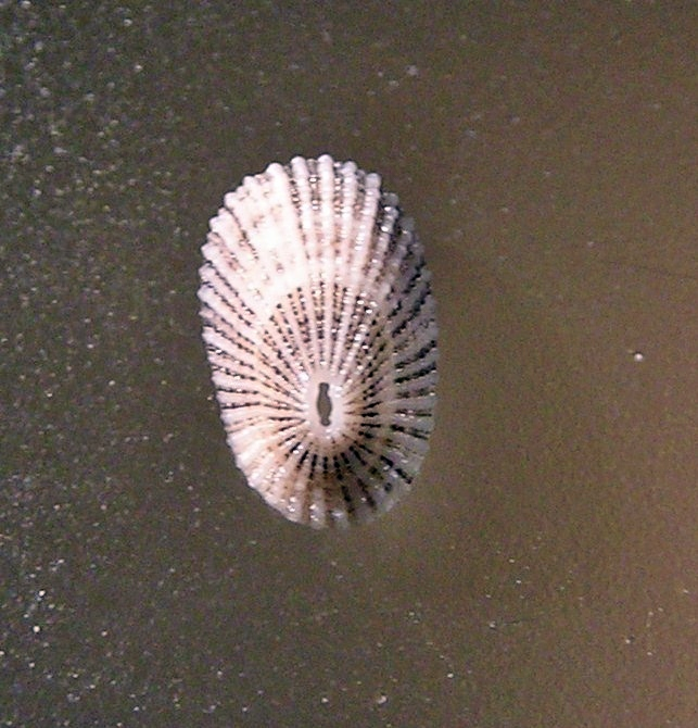 Diodora philippiana, a keyhole limpet from the family Fissurellidae; Cabo Verde, Boa Vista island.